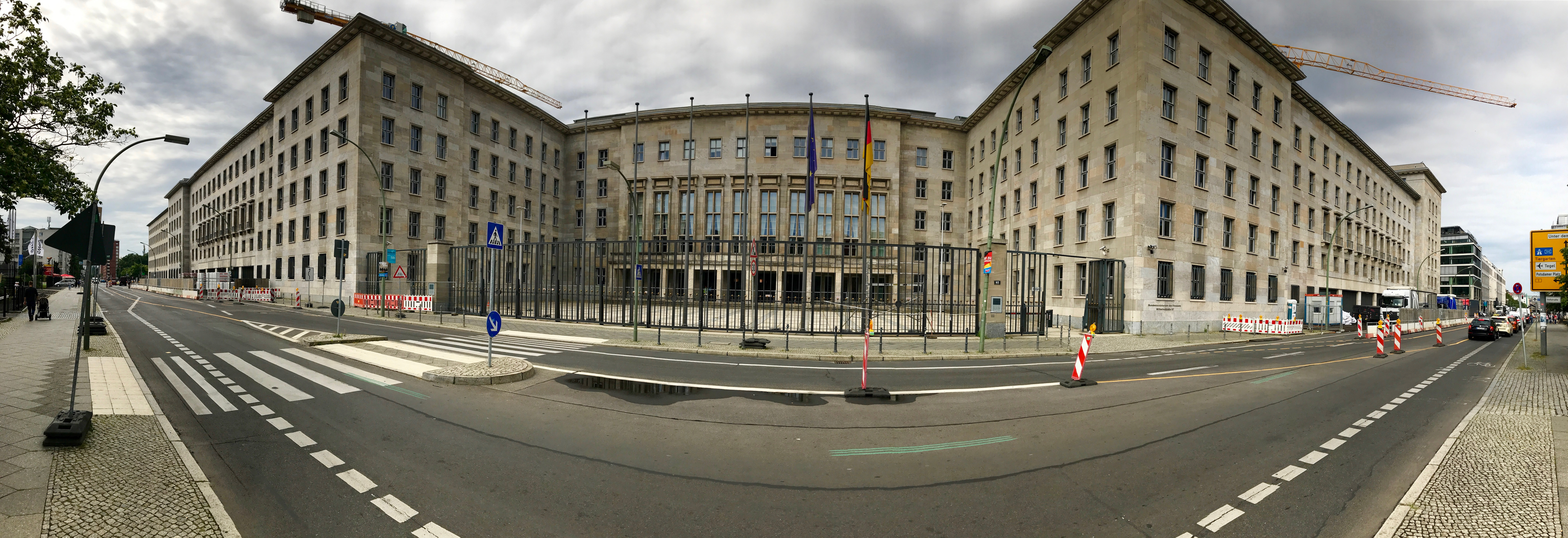 Panoramic photo Reichsluftfahrtministerium